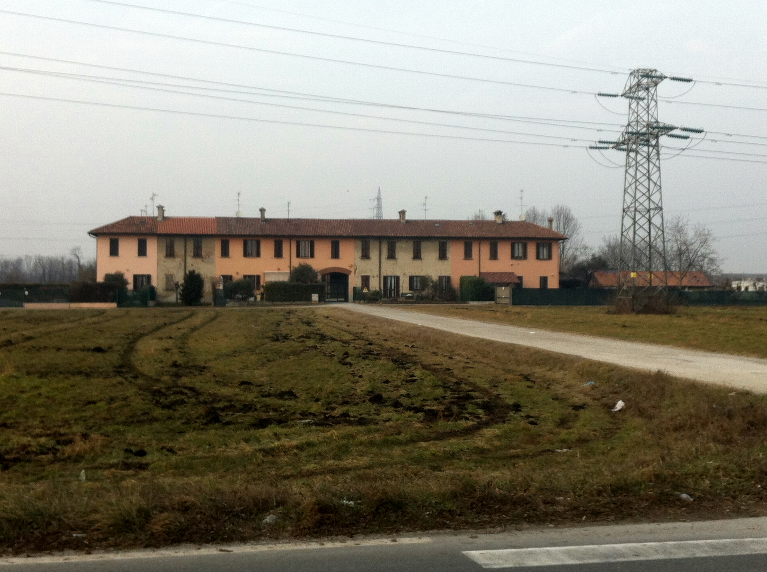 Cascina (Farmstead) Pareana, Brugherio